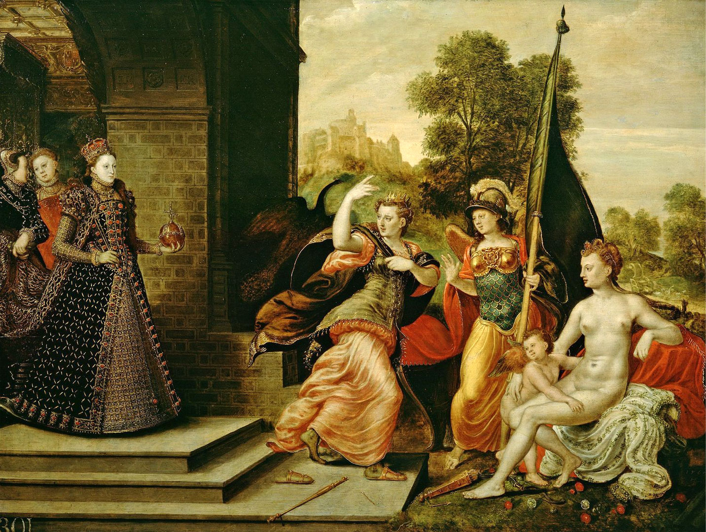 Allegoric representation of Elizabeth I with the goddesses Juno, Athena & Venus/Aphrodite. The fact that Juno seems to signal the Queen to walk towards the goddess suggests that the painting was commissioned to pressure Elizabeth into marriage.